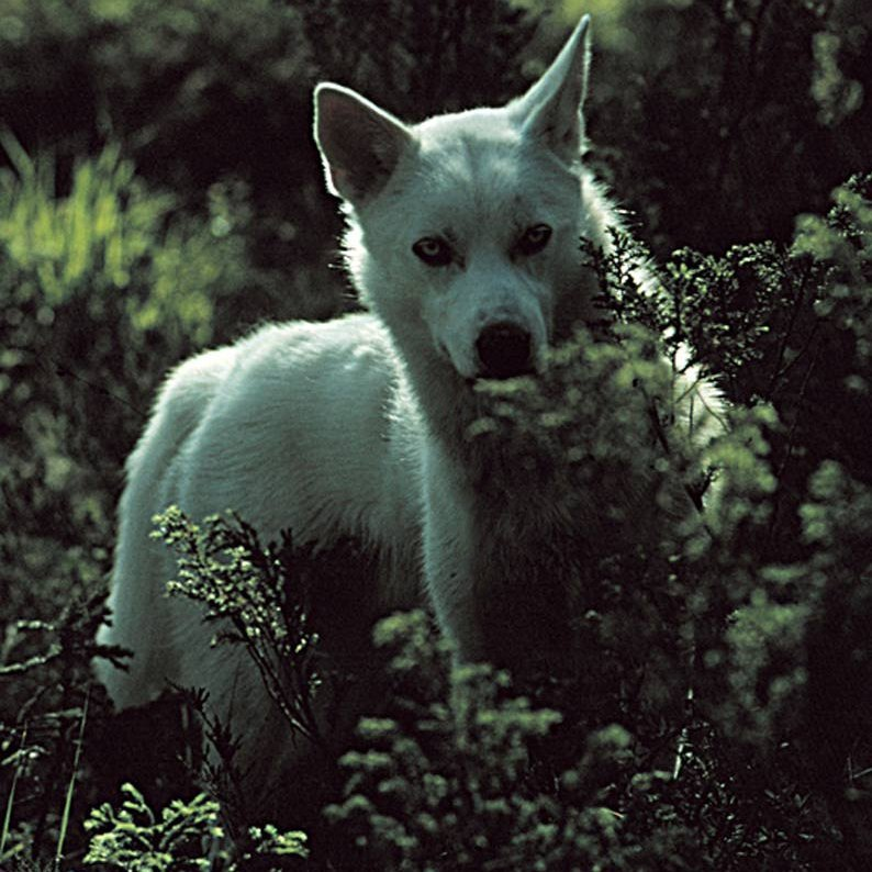 The siberian husky Lobo during hiking in Norway